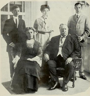 "THE WOMAN CITIZEN" President Taft and his family.